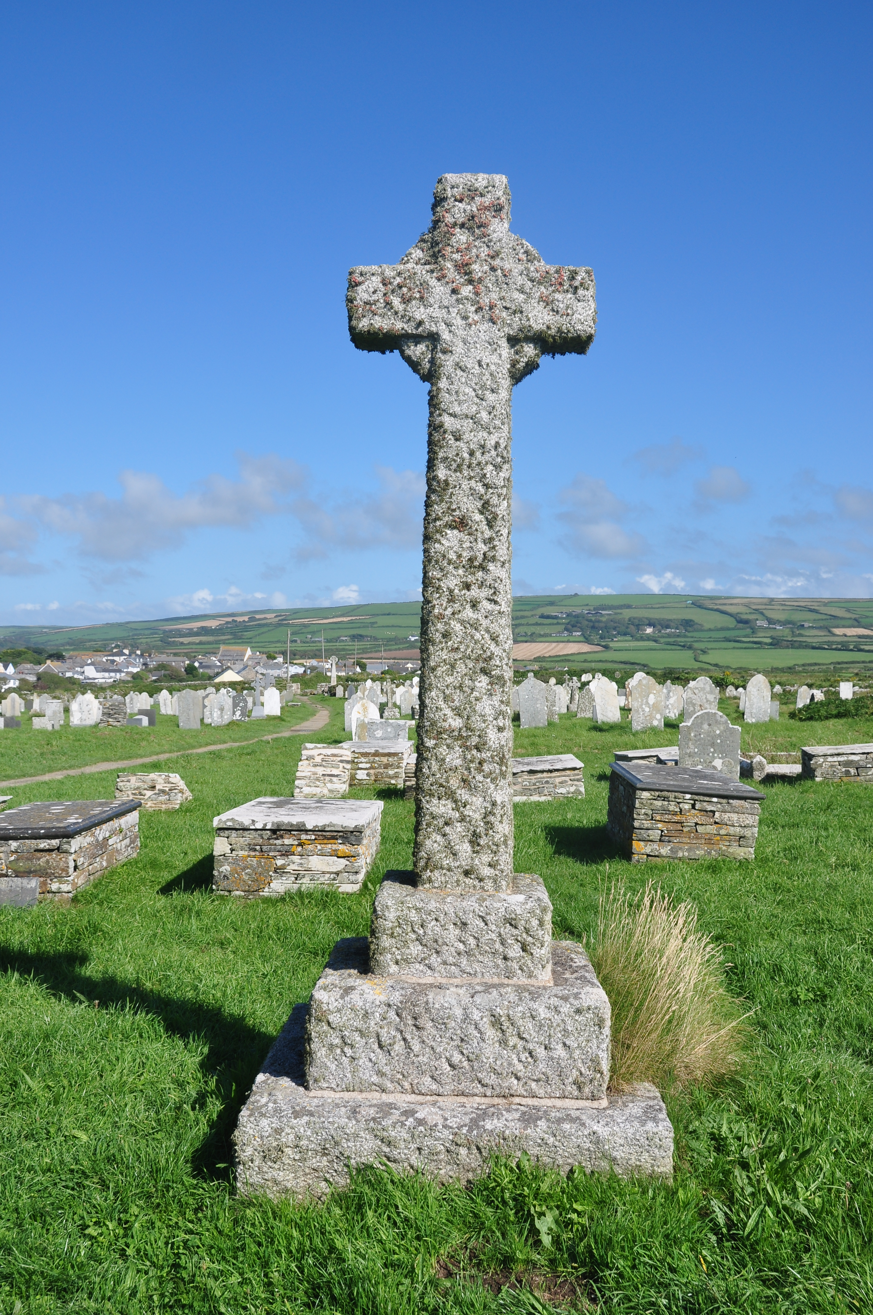 Cross at St Materiana's Church, Tintagel